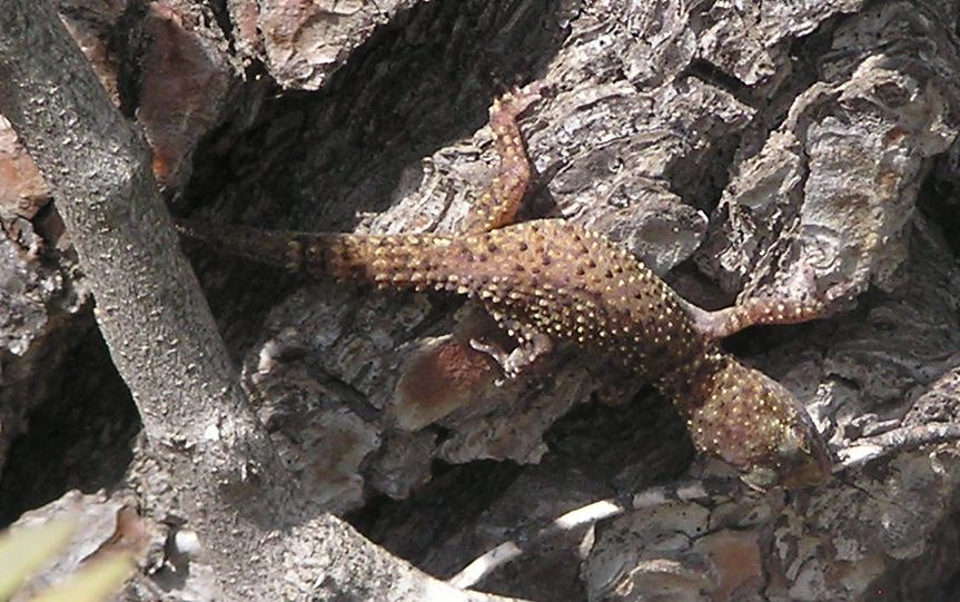 Hemidactylus turcicus, or Mediterranean House Gecko, taken in the Gilboa mountain, Israel